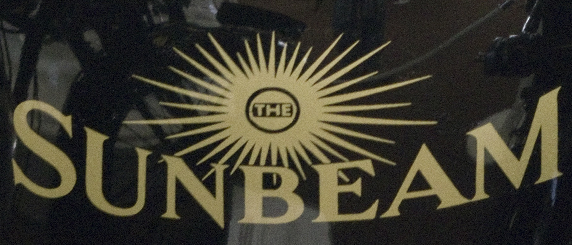 Logo on a Sunbeam motorcycle